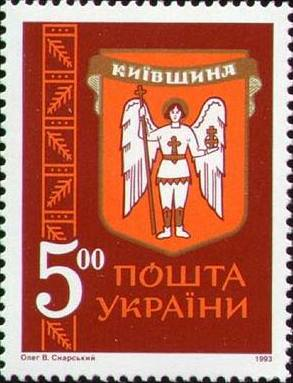 Stamp of Ukraine